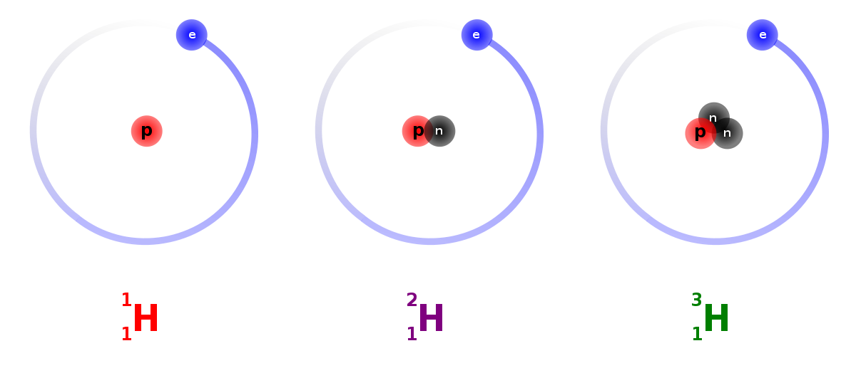 schemtic illustration of three isotopes of Hydrogen with symbols without text